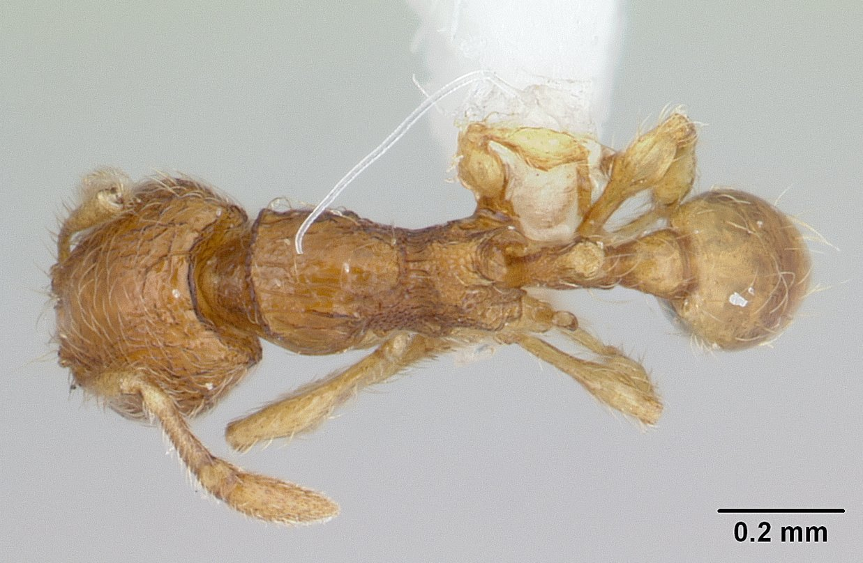 Dorsal view of ant Carebara urichi specimen casent0178633.